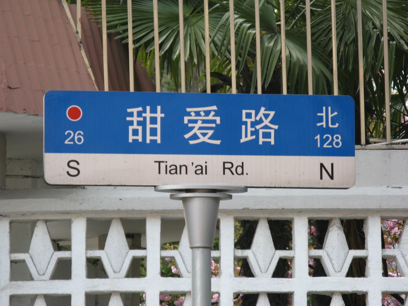 Tian'ai Road Shanghai,PRC